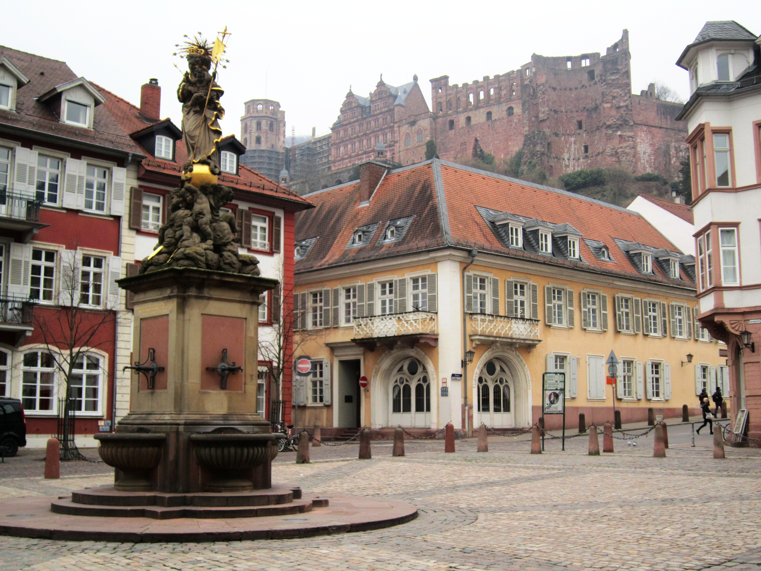 Fountain and Statue of St. Mary at Kornmarkt in Heidelberg; in the background: Heidelberg Castle